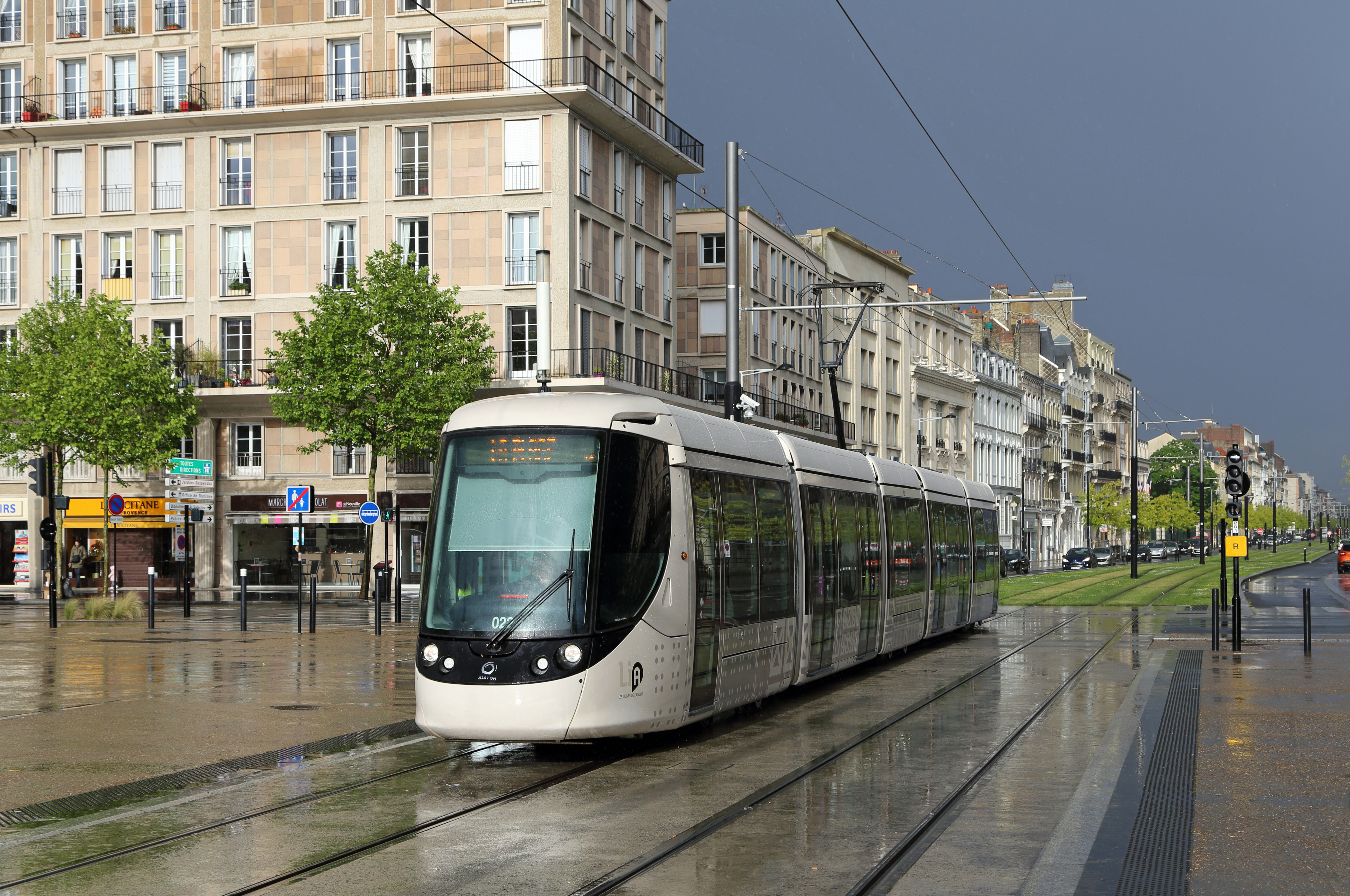 Le Havre (France): a Alstom Citadis 302 tram (vehicle number 22) coming from the Boulevard de Strasbourg